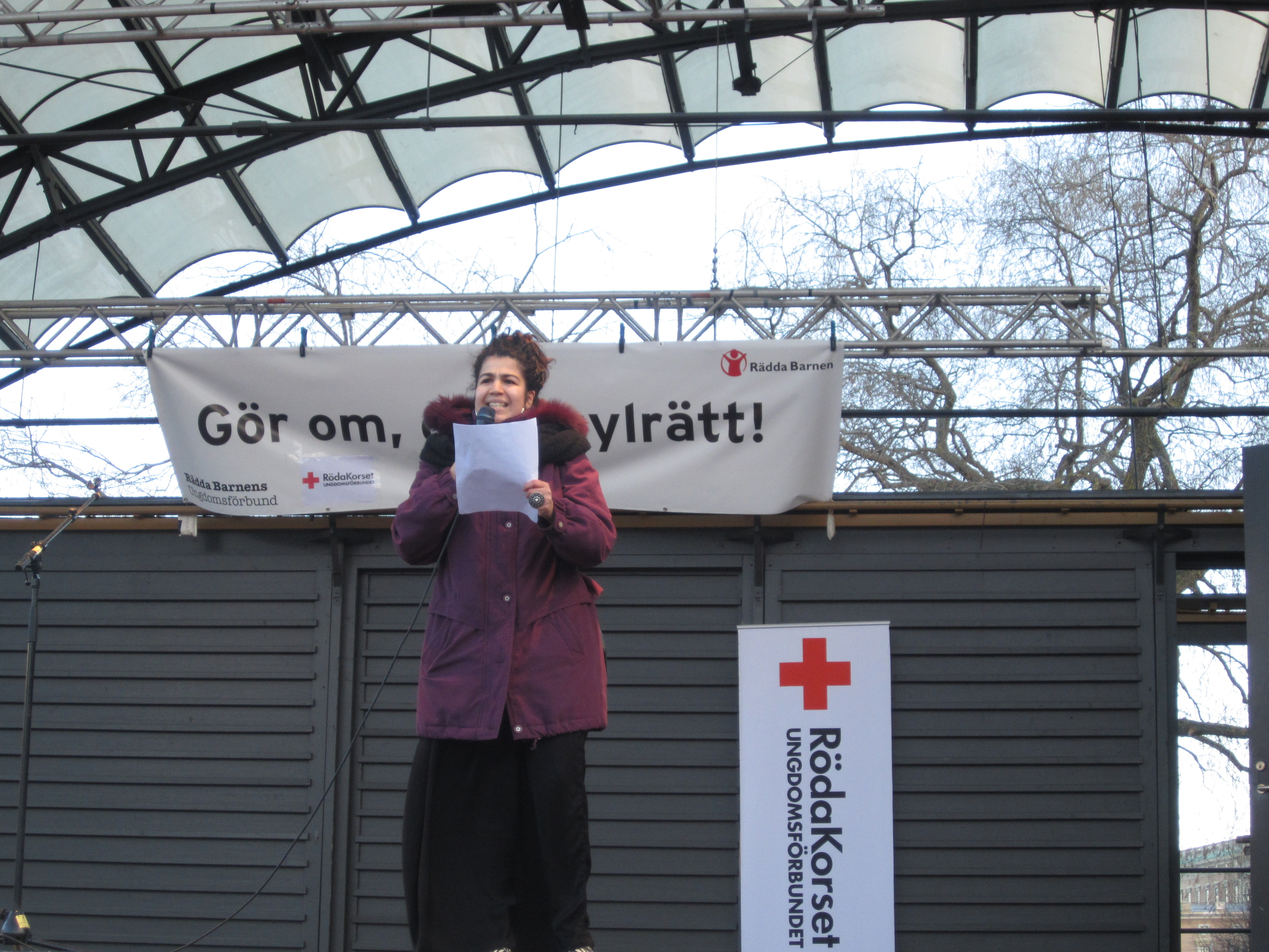 Political poetry slam by Nachla Vargas. Demonstration against REVA and Sweden's migration policy in Kungsträdgården in Stockholm, organized by Save the Children's youth association, the Red Cross' youth association and Ungdom Mot Rasism ("Youth Against Racism").